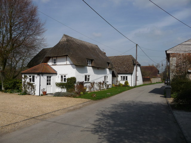 Nether Wallop - Country Cottage A traditional thatched cottage on Five Bells Lane.